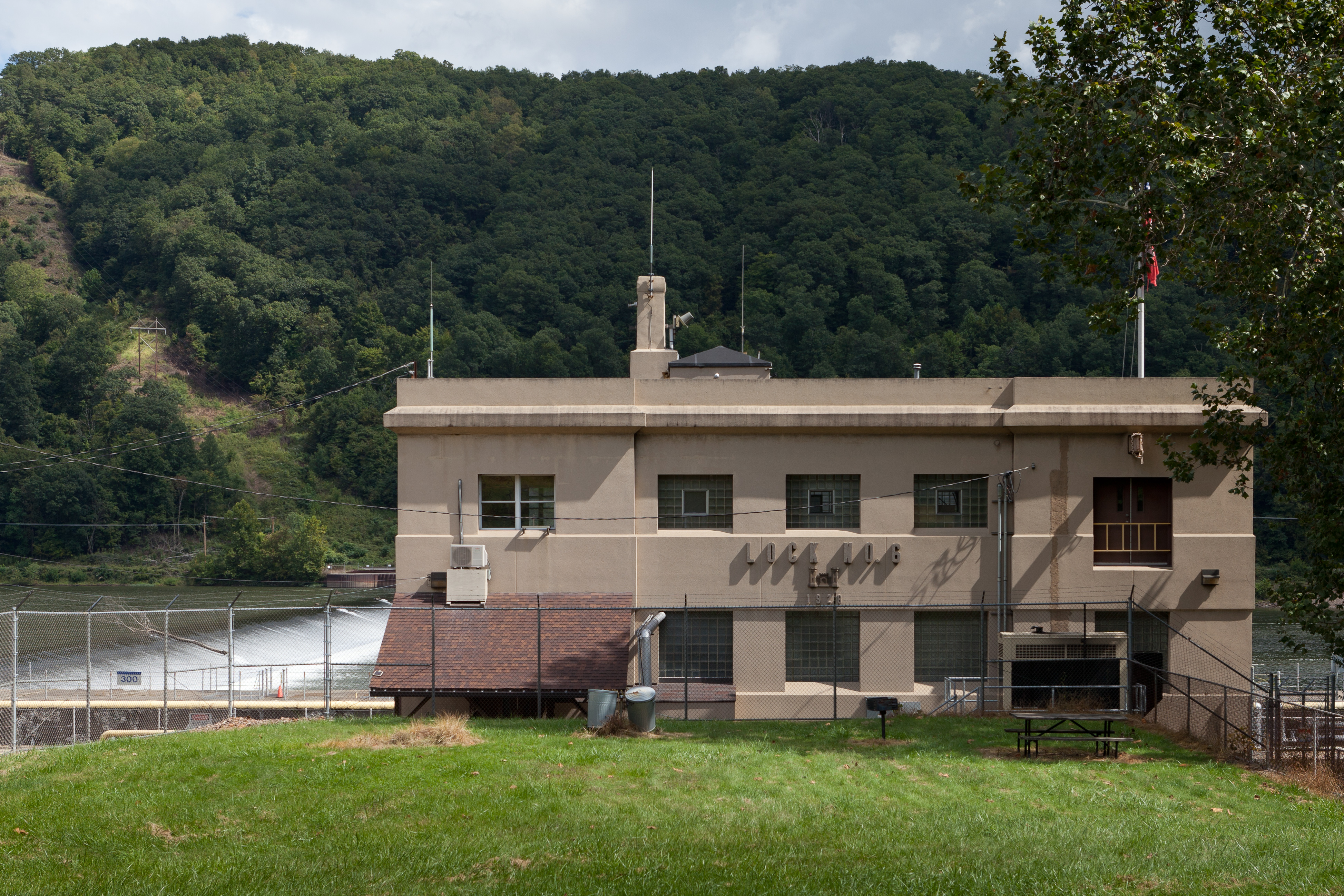 Allegheny River Lock and Dam No. 6, 1258 River Road above Freeport Bethel and South Buffalo Townships